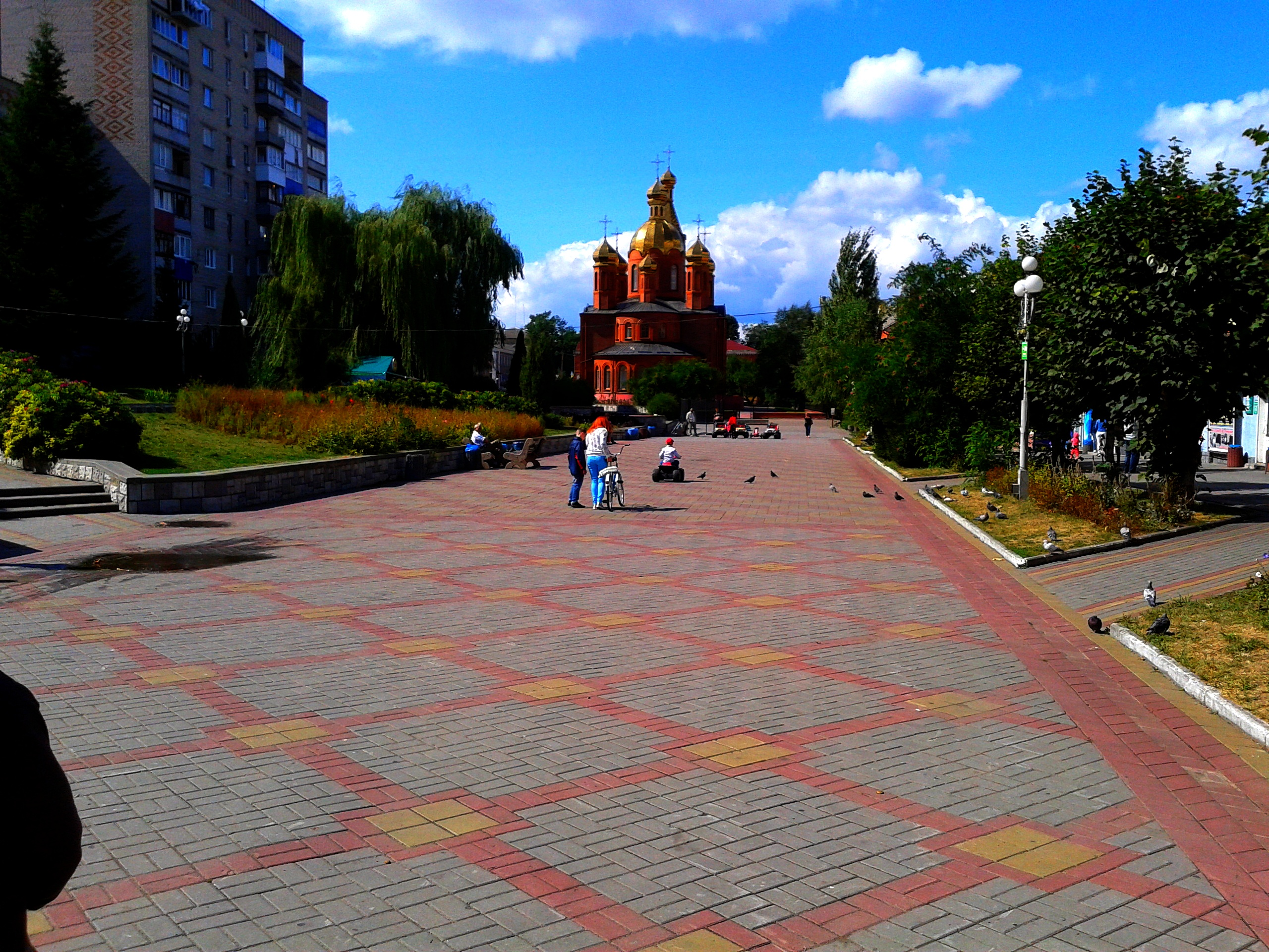 ORTHODOX CATHEDRAL AT CENTRAL SQUARE IN TOWN OF ZHMERINKA VINNYTSIA REGION STATE OF UKRAINE PHOTOGRAPH BY VIKTOR O LEDENYOV 25082014